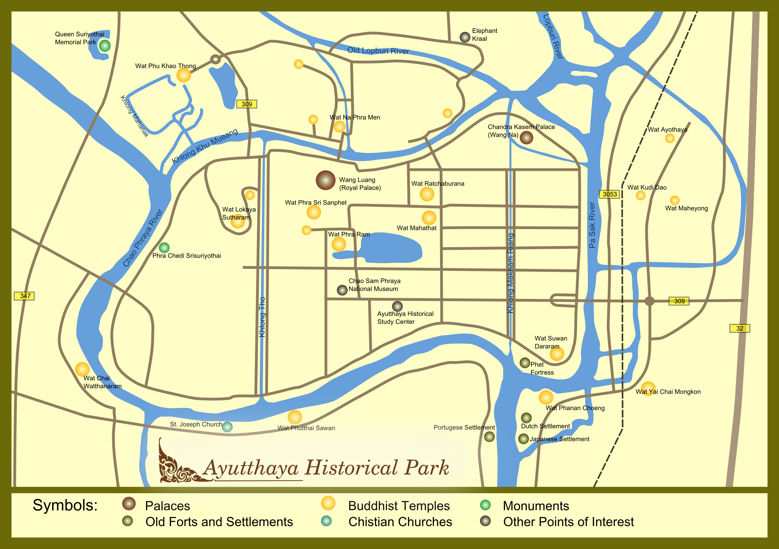 Map of Ayutthaya Historical Park, Ayutthaya, Thailand.